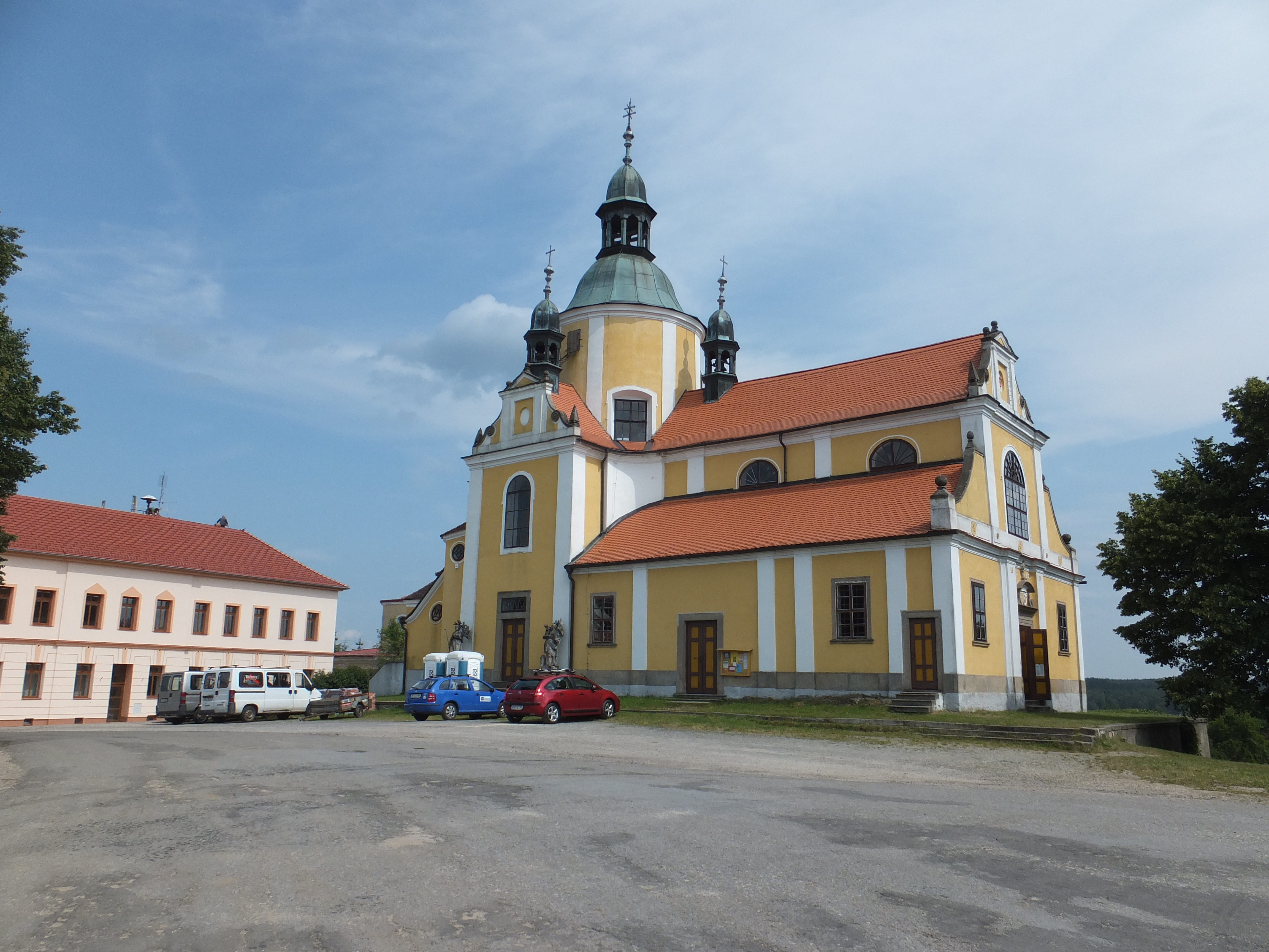 Chum u Třeboně - the square - the church of Assumption of Mary